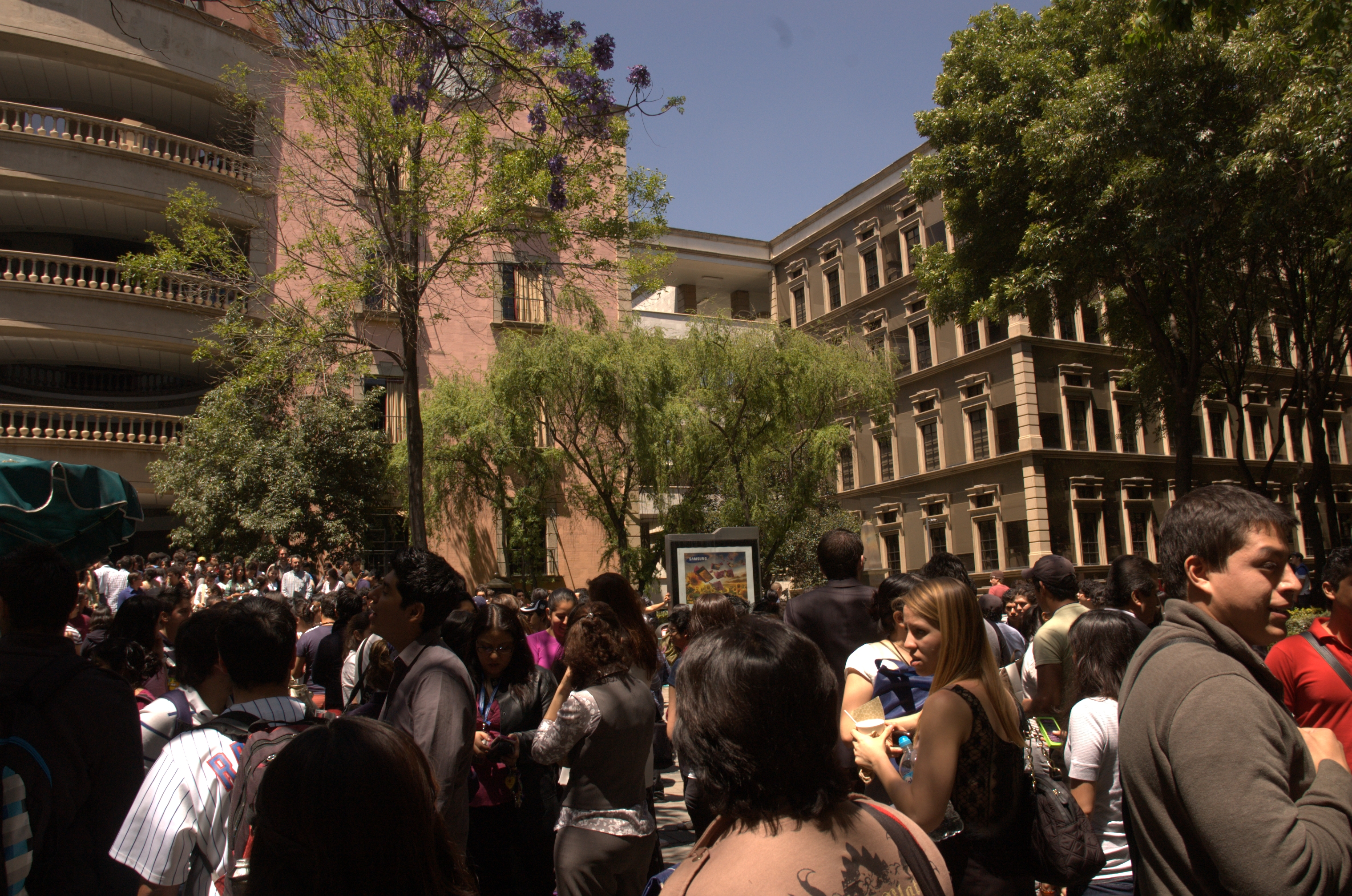 Students evacuated outside after the 2012 Guerrero–Oaxaca earthquake at ITESM Campus Ciudad de México